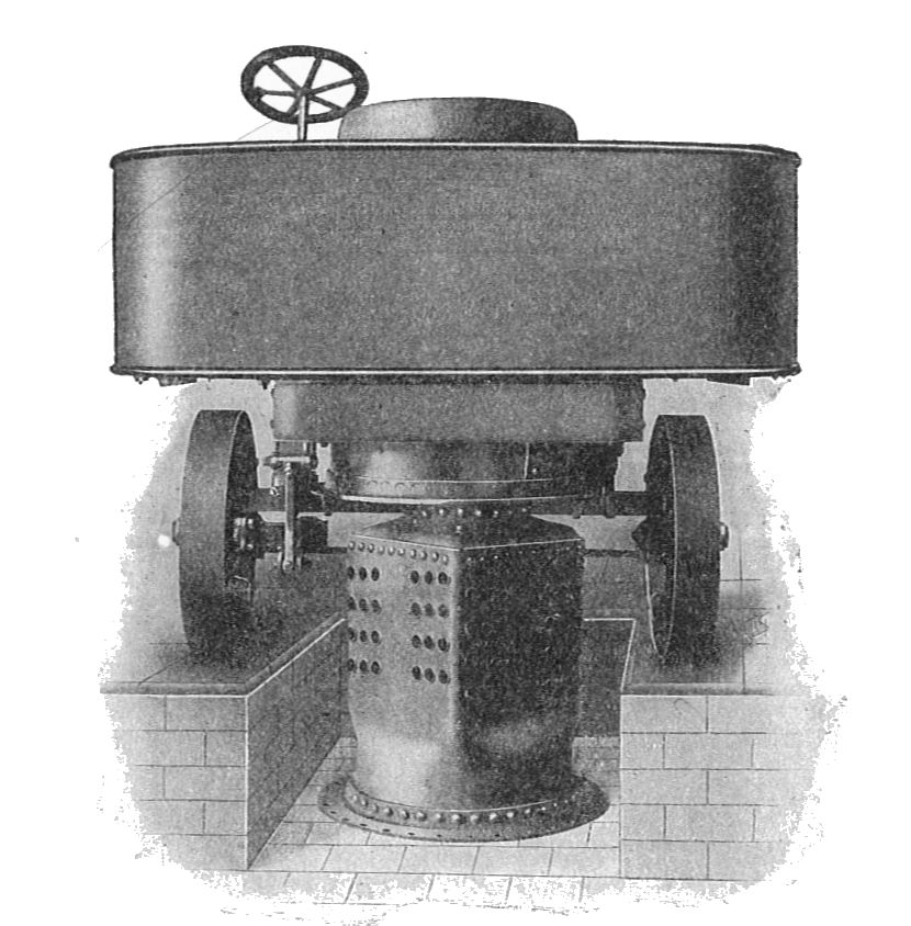 Sentinel steam waggon, with boiler dismantled for cleaning (Rankin Kennedy, Modern Engines, Vol V).jpg